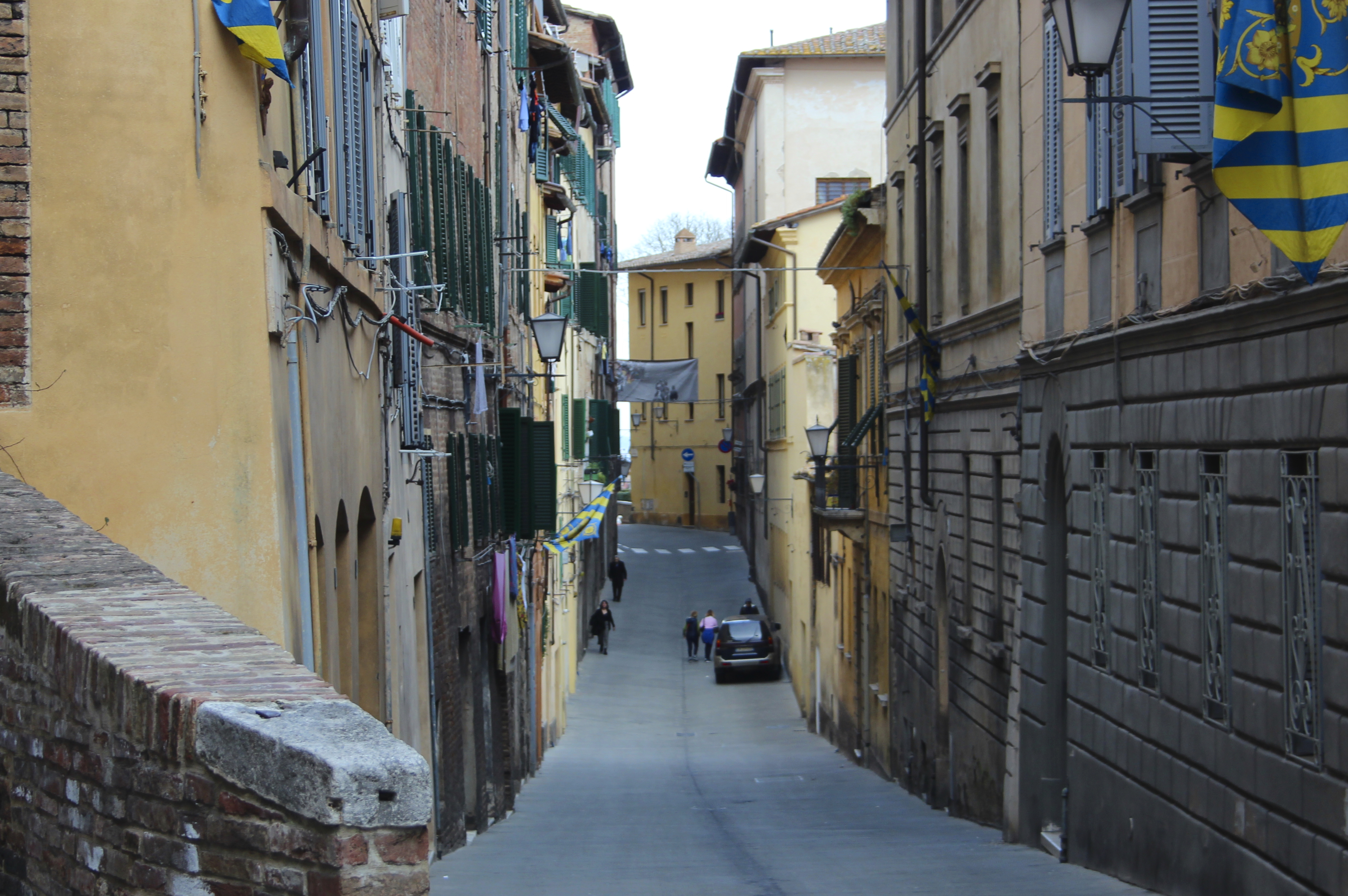 Via delle Cerchia, street in Siena, Terzo di Città, Tuscany, Italy